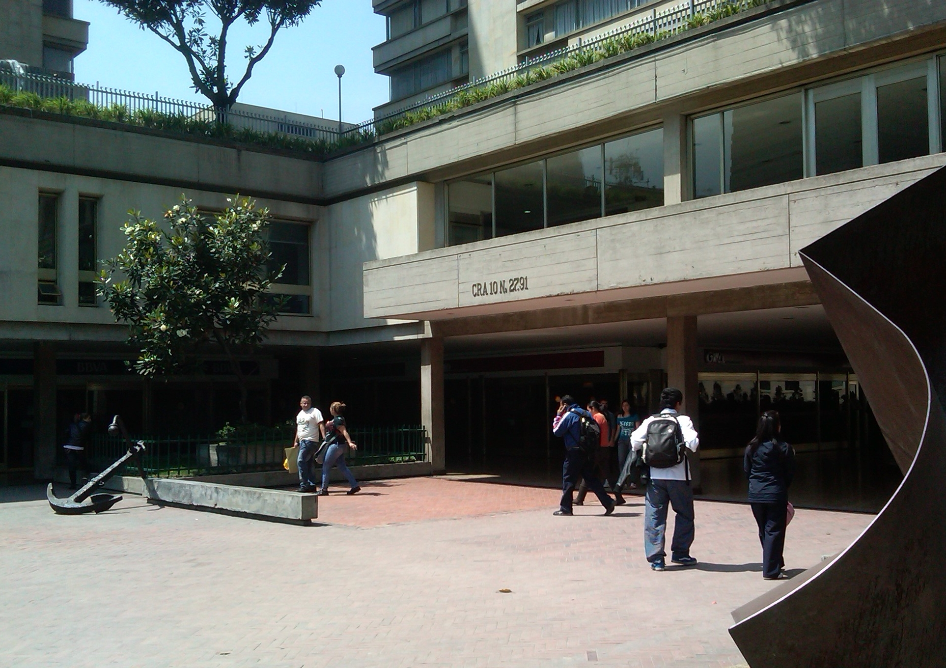 One of the entrances on Carrera Decima to the Centro Internacional Tequendama